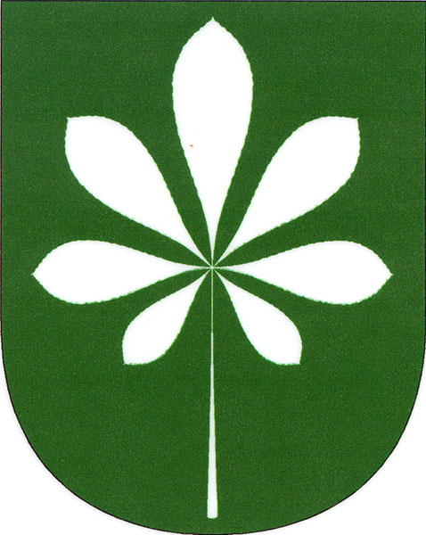 Municipal coat of arms of Lhota village, Kladno District, Czech Republic.